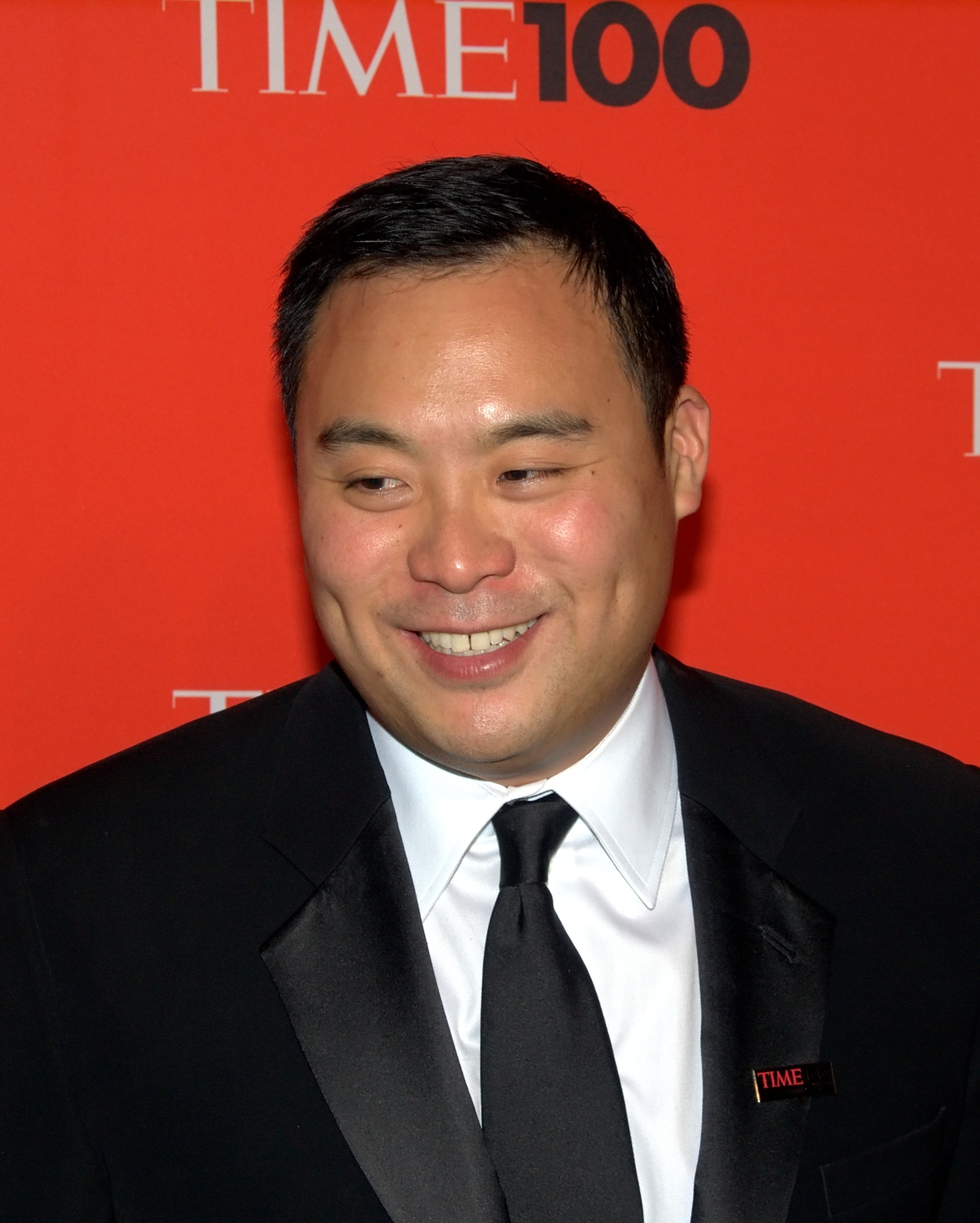 David Chang at the 2010 Time 100.